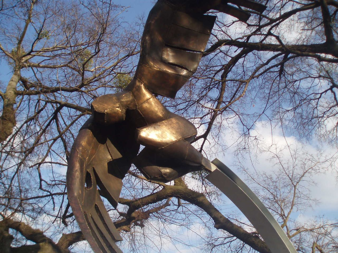 Daniel Tupy memorial. Note from Flickr photographer, Juraj Grečnár: "Hello Elonka, I've changed license to CC and you have my special permission to use any photo of Daniel Tupy memorial from my archive. I hope that this small service will help with making Daniel as a memorial for all people - to stop extremist violence, because it kills."